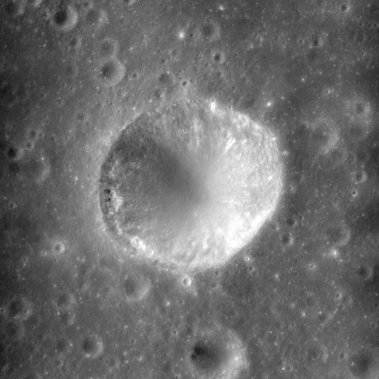 Somewhat oblique view of Zasyadko crater, within Babcock crater, on the far side of the moon. Taken by Apollo 16 panoramic camera.